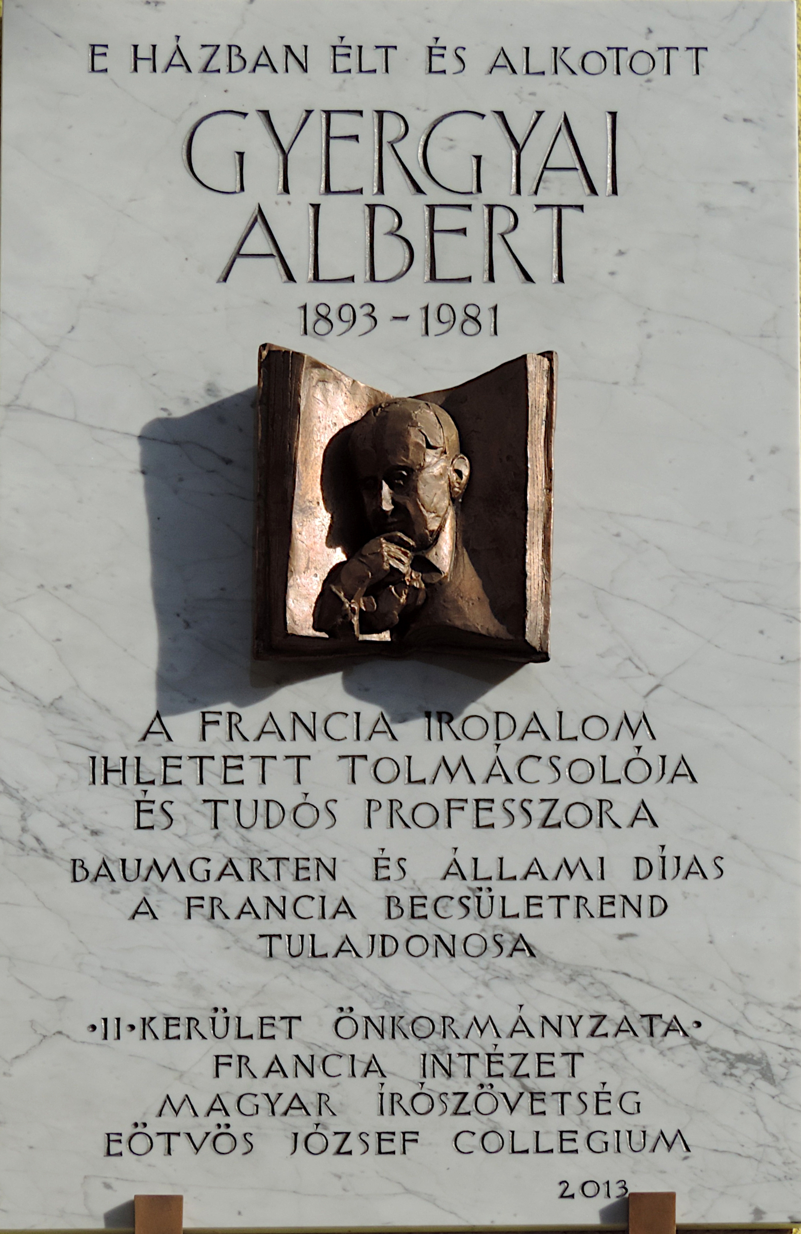 Plaque of Albert Gyergyai (Budapest District II, Fillér utca No 1)